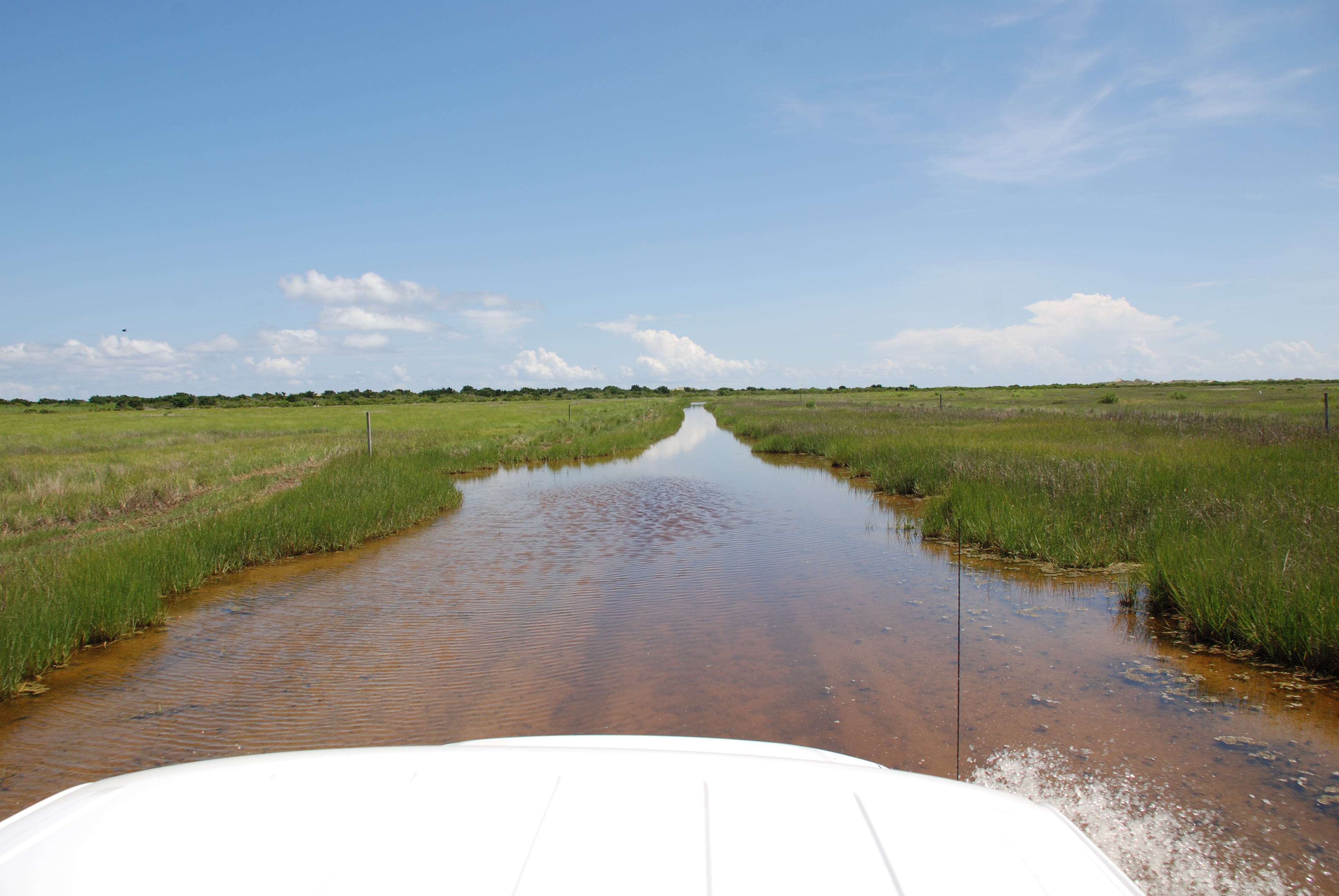 Road to Portsmouth, North Carolina an abandoned village on North Core Banks: road covered with about foot of water. Looking over the roof of a moving truck.